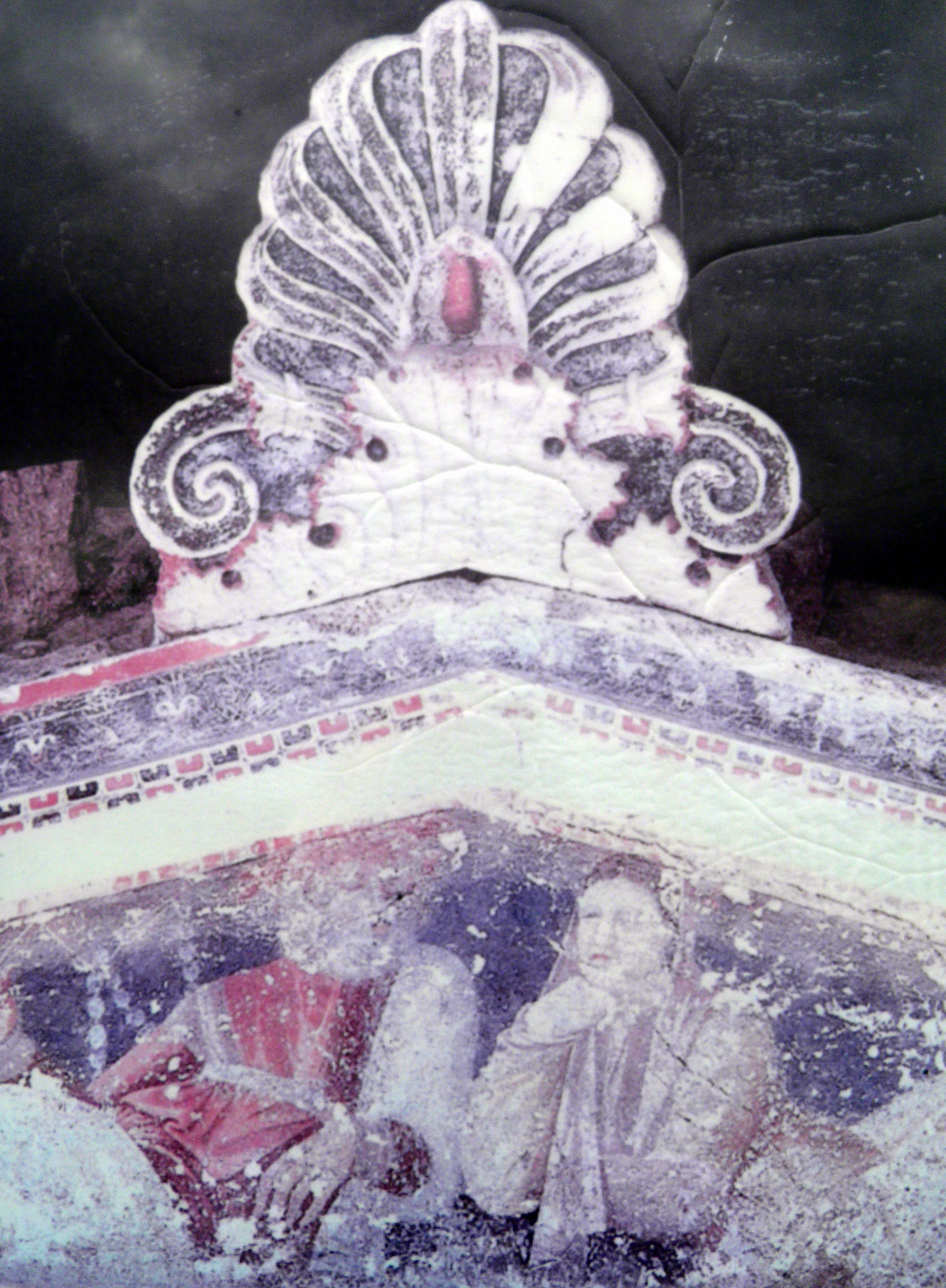 The Tomb of the Palmettes (photography of the pediment), first half of the 3rd century BC, Ancient Mieza